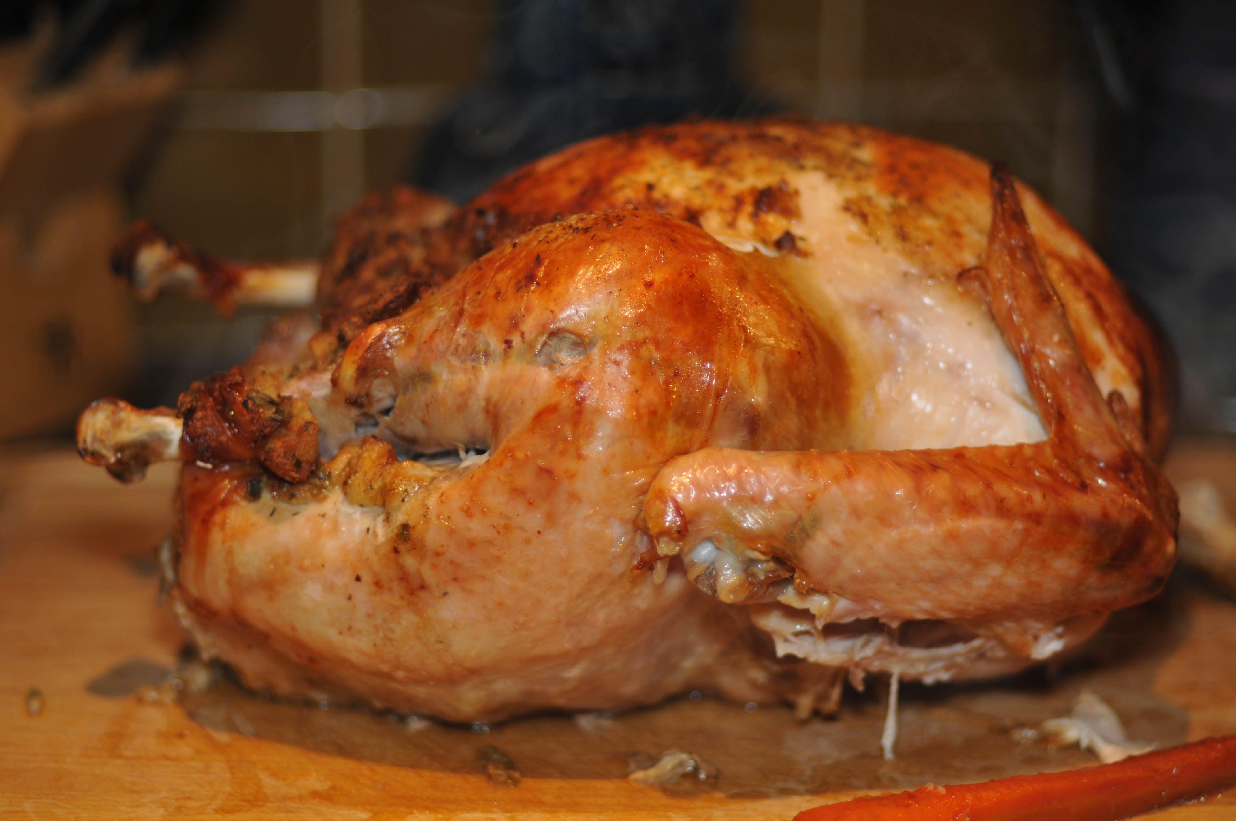 Oven roasted turkey, common fare for Christmas and Thanksgiving celebrations.